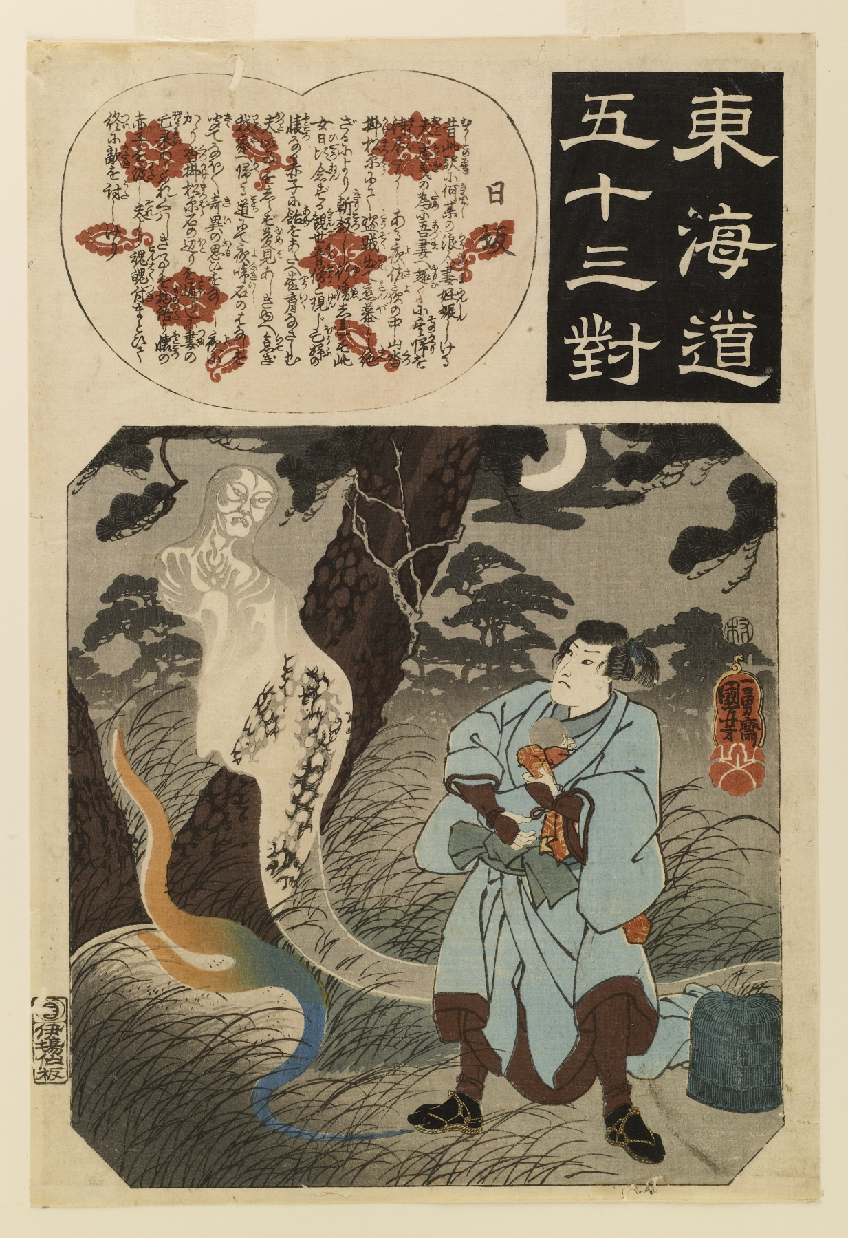 As a husband passes by the place where his pregnant wife was brutally murdered, her ghost appears and hands their child to him. She then tells him the story of her murder and assists him as he takes revenge for her death. Part of the series The 53 stations of the Tokaido in pairs(or "53 Parallels for the Tōkaidō Road"), a series of woodcuts composed by Hiroshige, Kuniyoshi and Kunisada and issued around 1845 by different publishers..